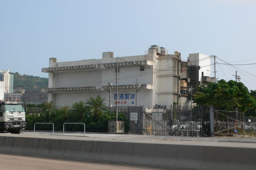 The Ice Factory of Hong Kong Ice and Cold Store in Yau Tong, Hong Kong